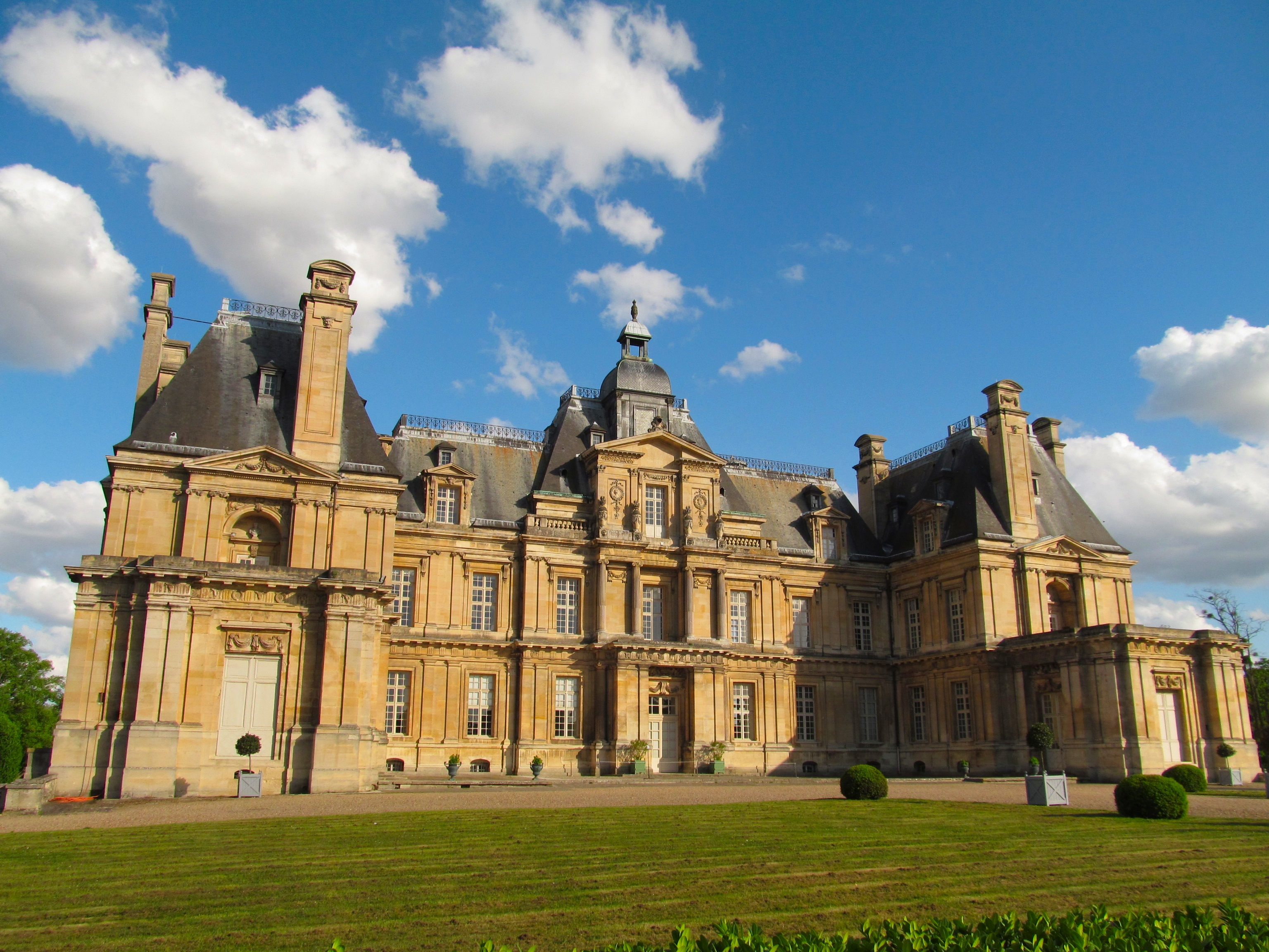 Château de Maisons-Laffitte, southeast-facing garden front